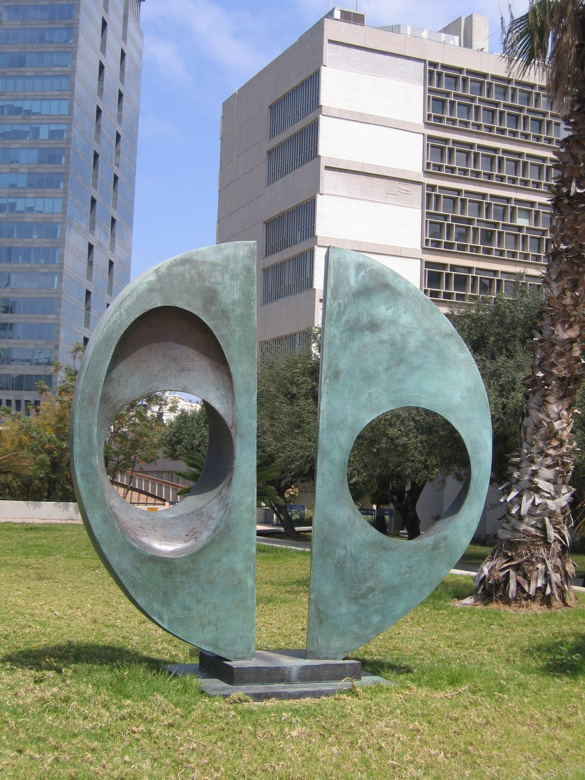 Barbara Hepworth, Two Forms (Divided Circle), 1969, bronze photo by talmoryair, 8.4.2007, at the tel aviv museum of art